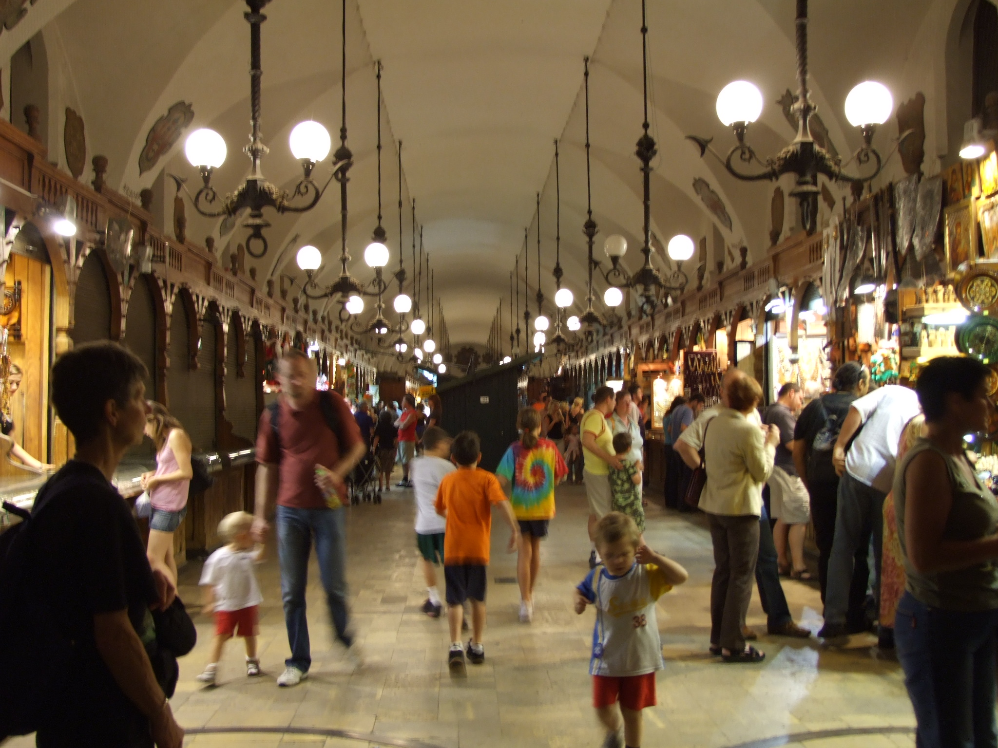 Interior of Sukiennice, Kraków, Poland